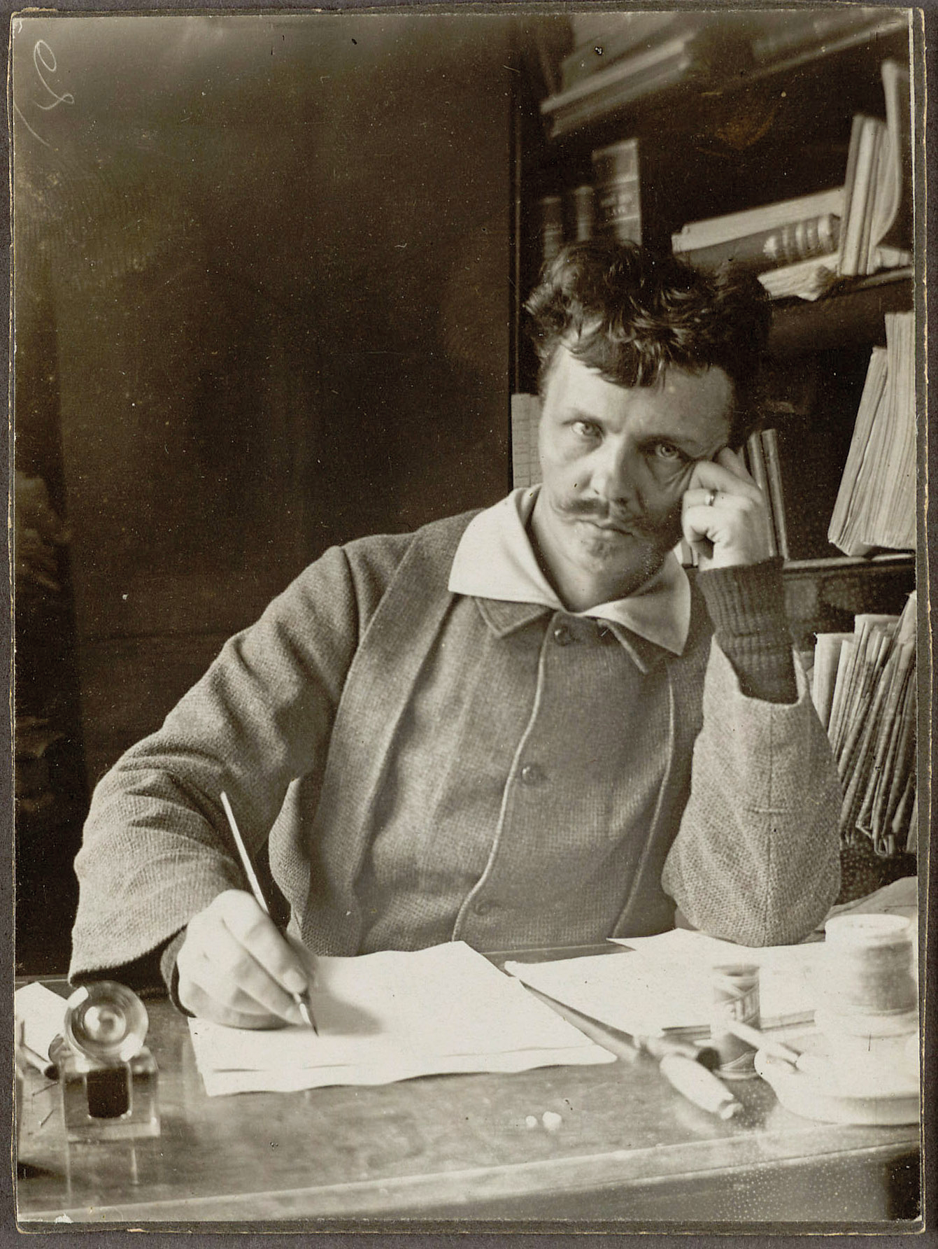 Swedish author August Strindberg. Self-portrait in Gersau, Switzerland Date: 1886 Photographer: August Strindberg Part Of: National Library of Sweden, Collection of Manuscripts, Strindbergsrummet